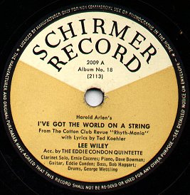 Schirmer 78 label, with the company logo clearly visible. From disc with recording by Lee Wiley and Eddie Condon.